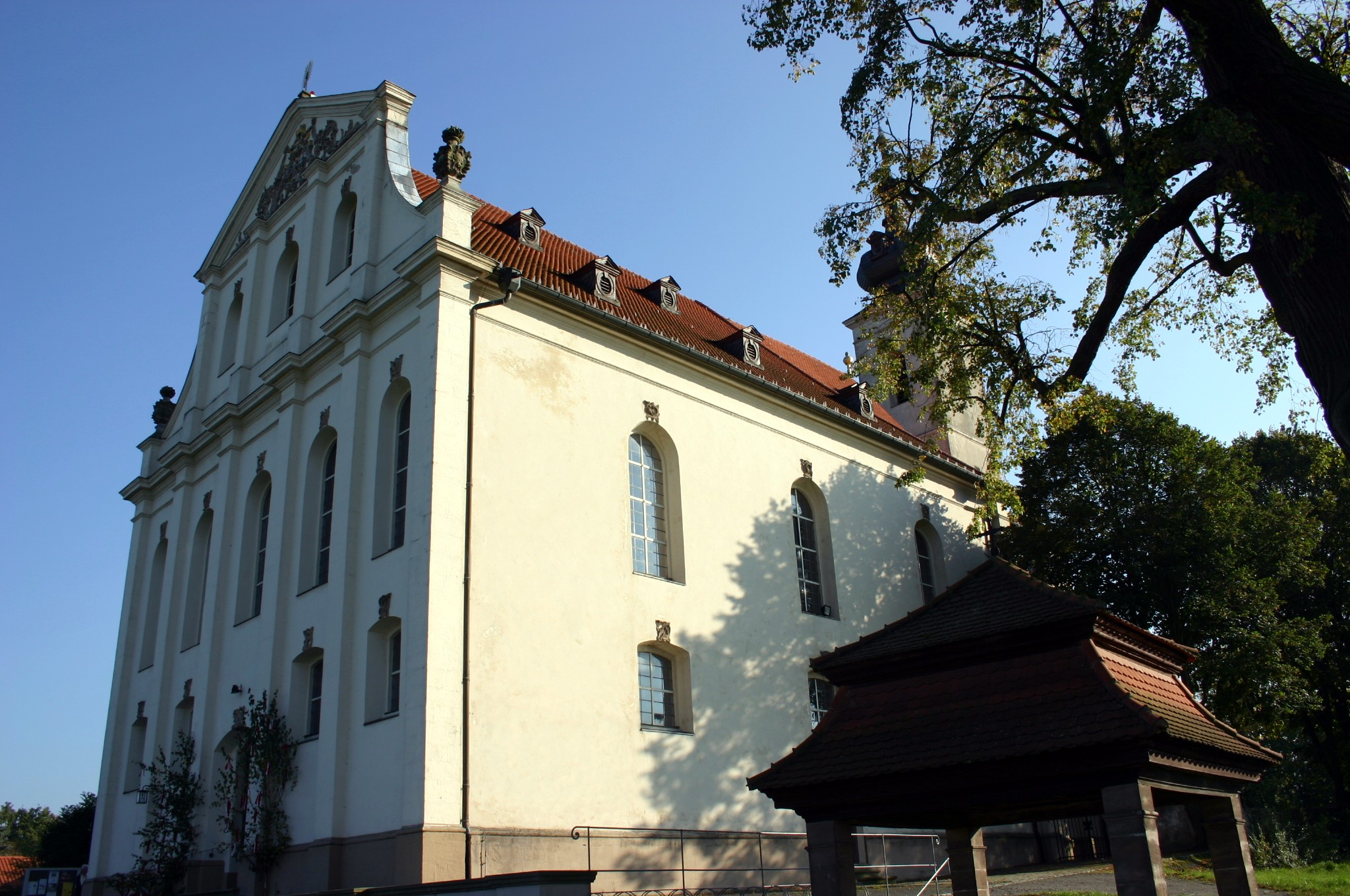 Limbach (Eltmann municipality), view of Parish Church and Sanctuary of the Visitation from north-west.